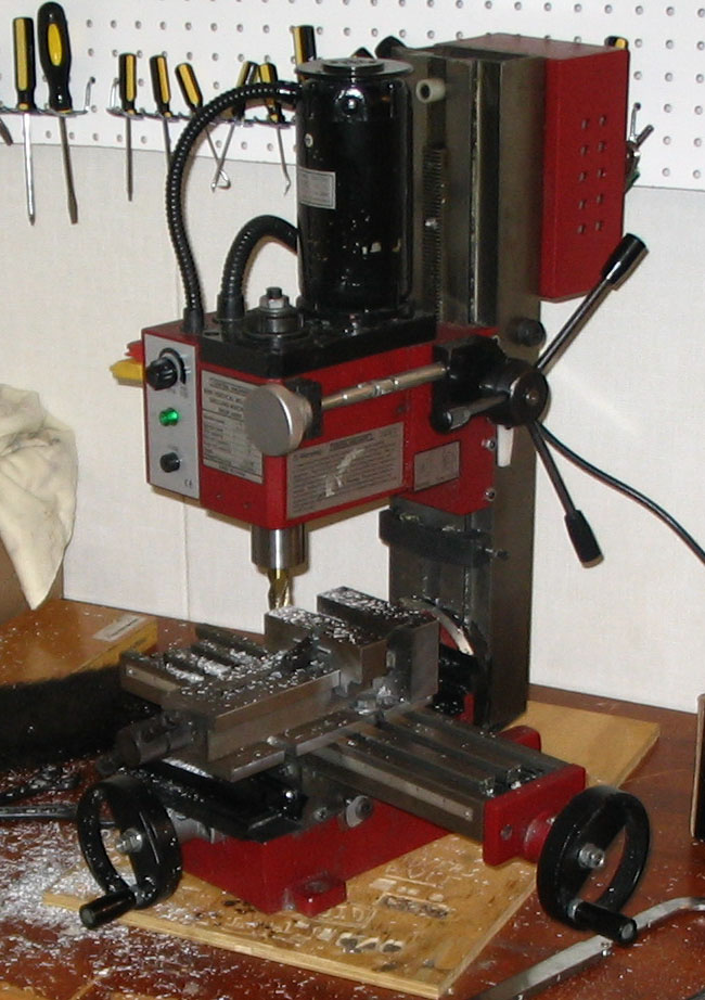 I took this picture my